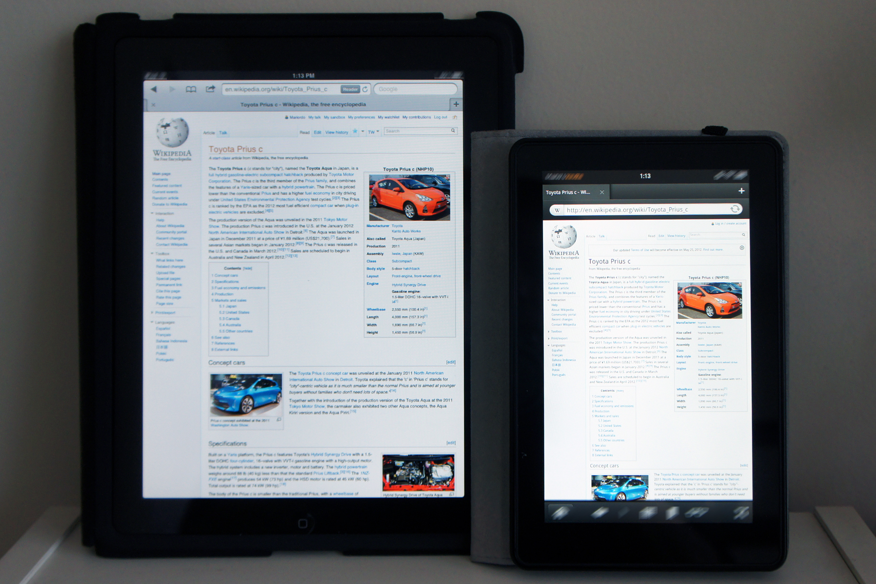 Amazon Kindle Fire (right) compared with iPad (original, left), both displaying the English Wikipedia main page.The Wikipedia screenshot is licensed under GPL and any other material that might be copyrighted (icons, logos, etc) has been blurred to avoid any copyrights infringement